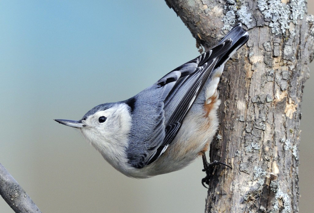 Photo of the Week - 2/13/12 White-breasted nuthatch photographed in Hadley, Massachusetts. Credit: Bill Thompson/USFWS